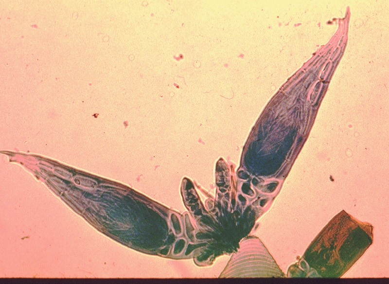 Herpomyces (Ascomycota, Laboulbeniomycetes) micrograph. These two bottle-shaped fruting bodies are about 0.3 mm long. They are full of ascospores. Between them, there are two male indivuduals. Part of a striated foot cell can be seen below